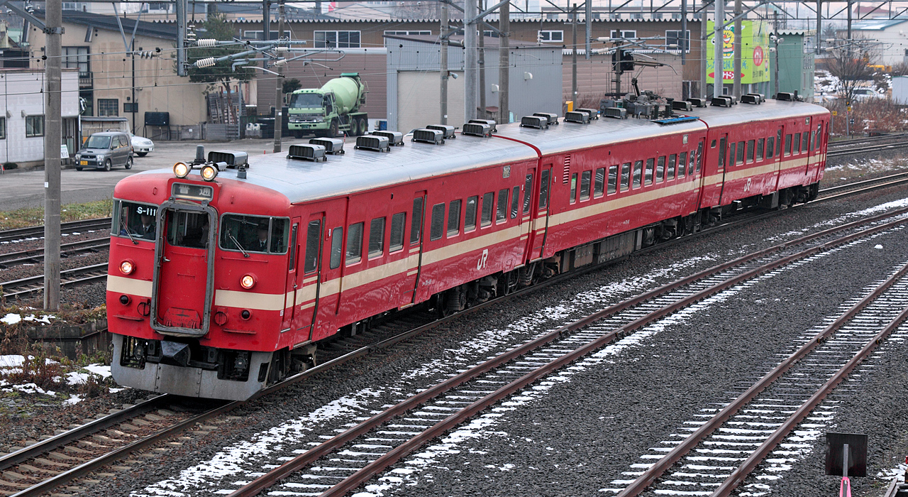 JR Hokkaido's JNR 711 series EMU ( Asahikawa Stn. - Chikabumi Stn. )